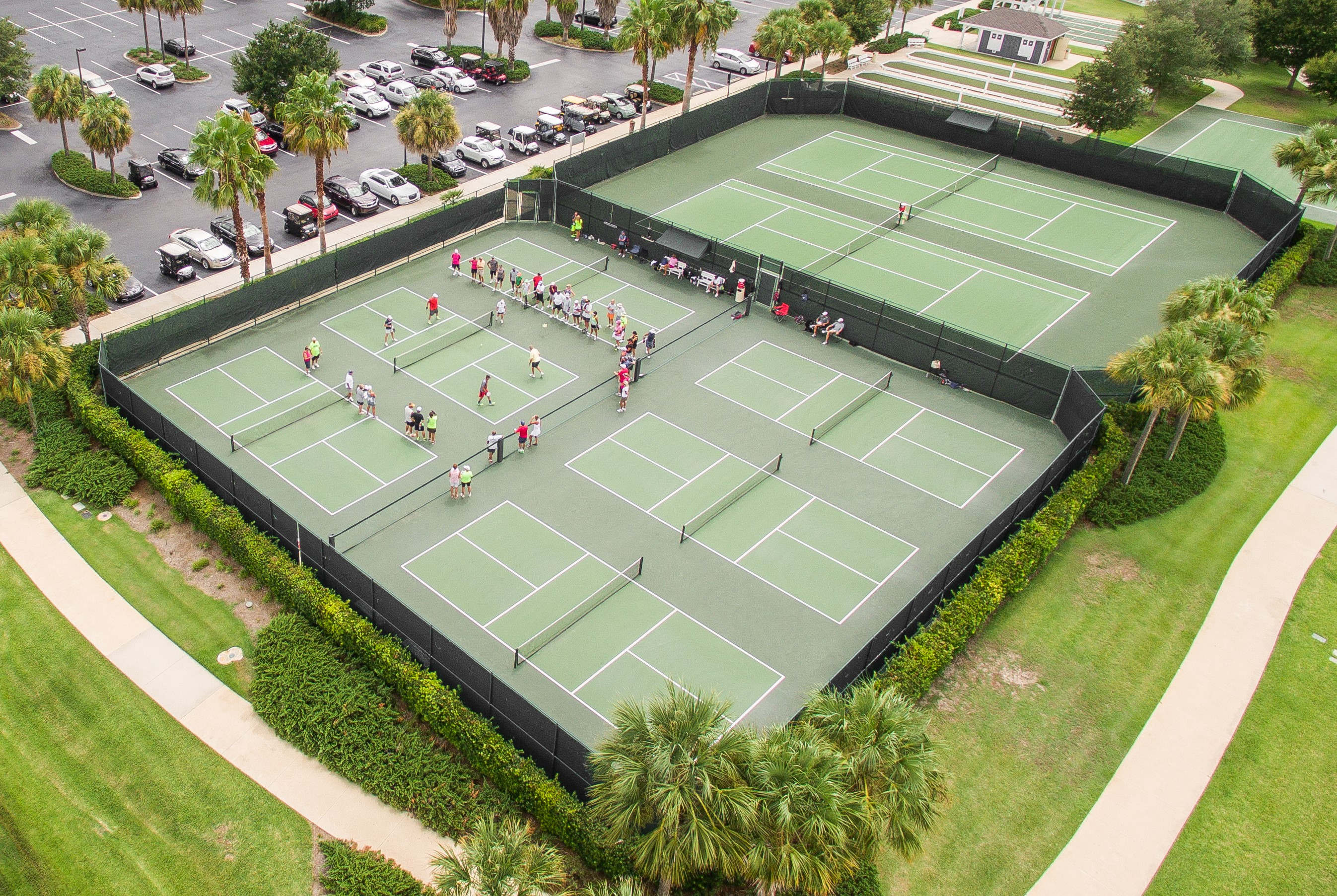 Aerial photo of pickleball courts in The Villages